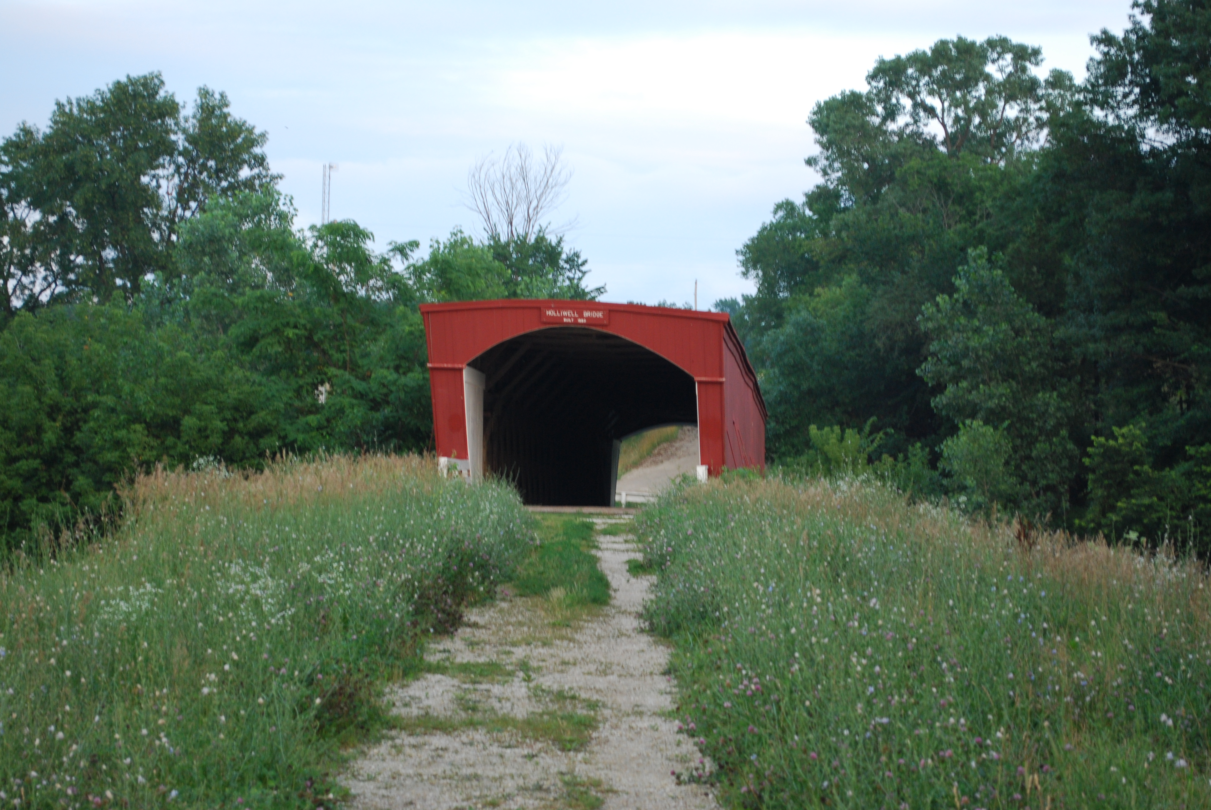 The north side of the Holliwell Bridge of Madison County Iowa